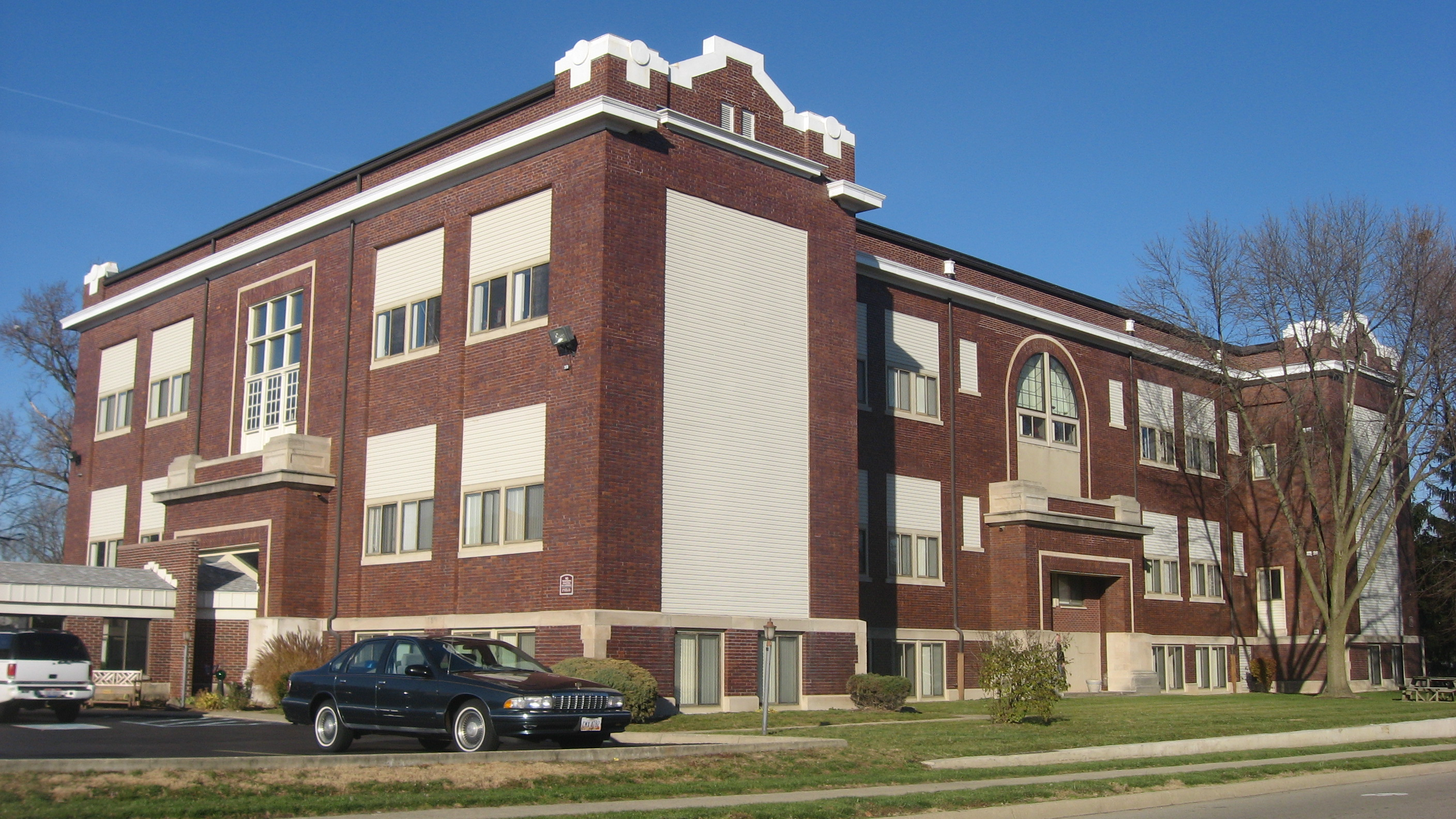 Southern side and front of the McKinley School, located at 240 S. Main Street in West Milton, Ohio, United States. Built in 1909, it is listed on the National Register of Historic Places.